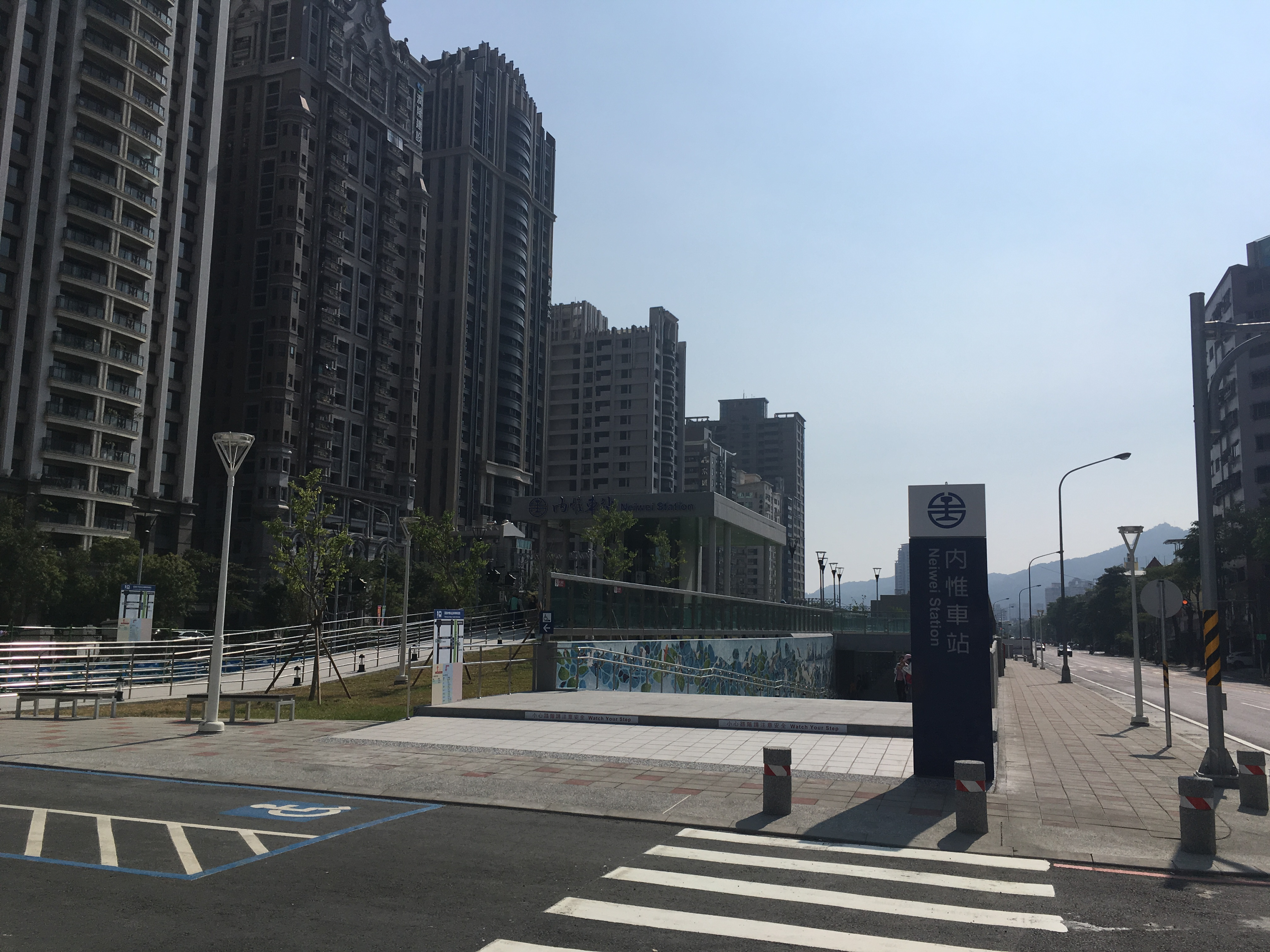 North Entrance of TRA Newei station